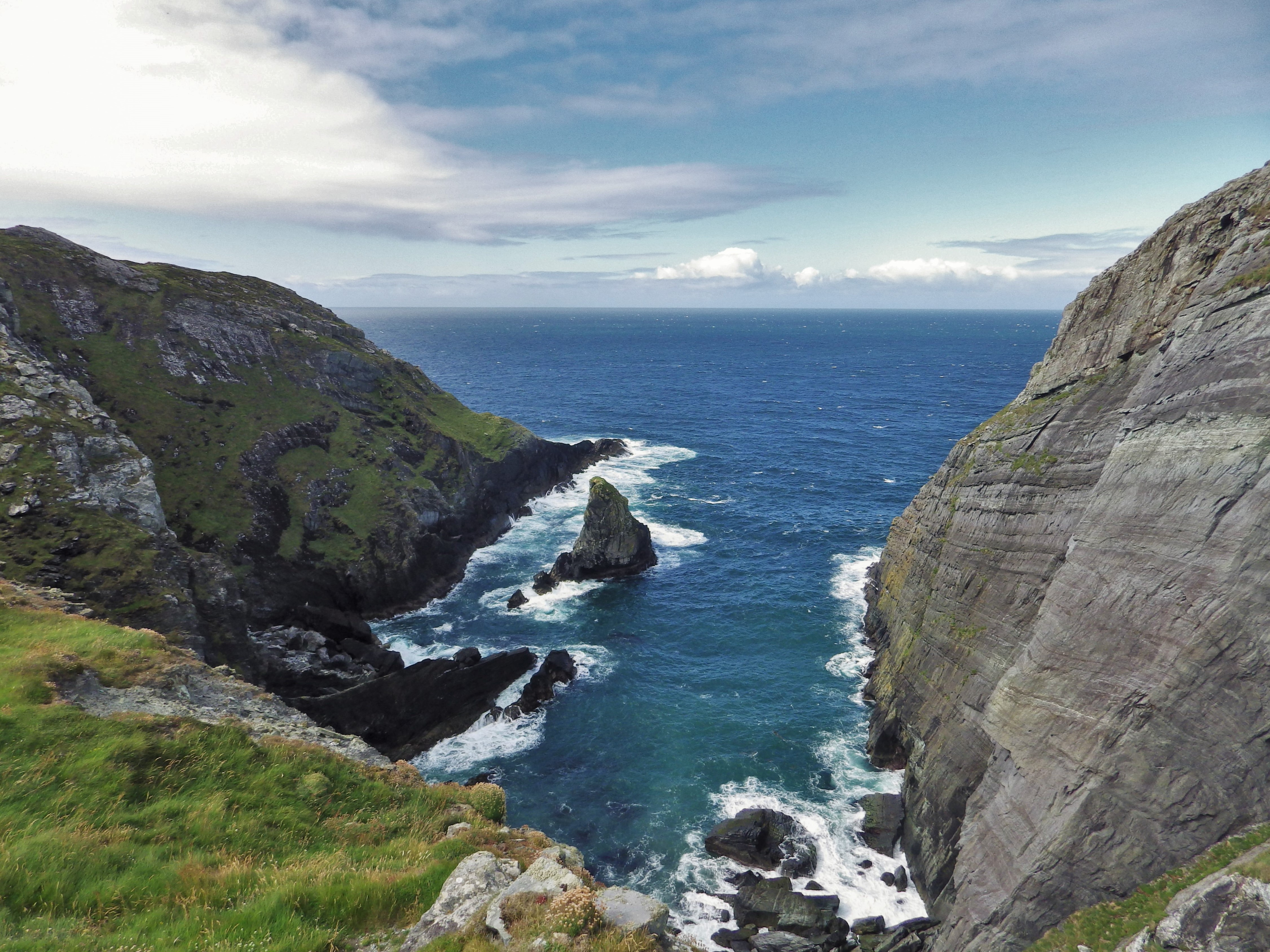 Three Castle Head, West Cork - June 2016